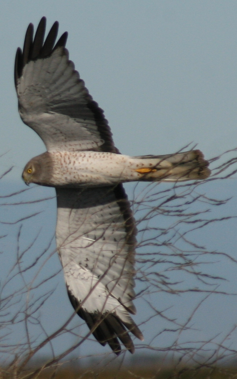 Northern Harrier (Circus hudsonius), male